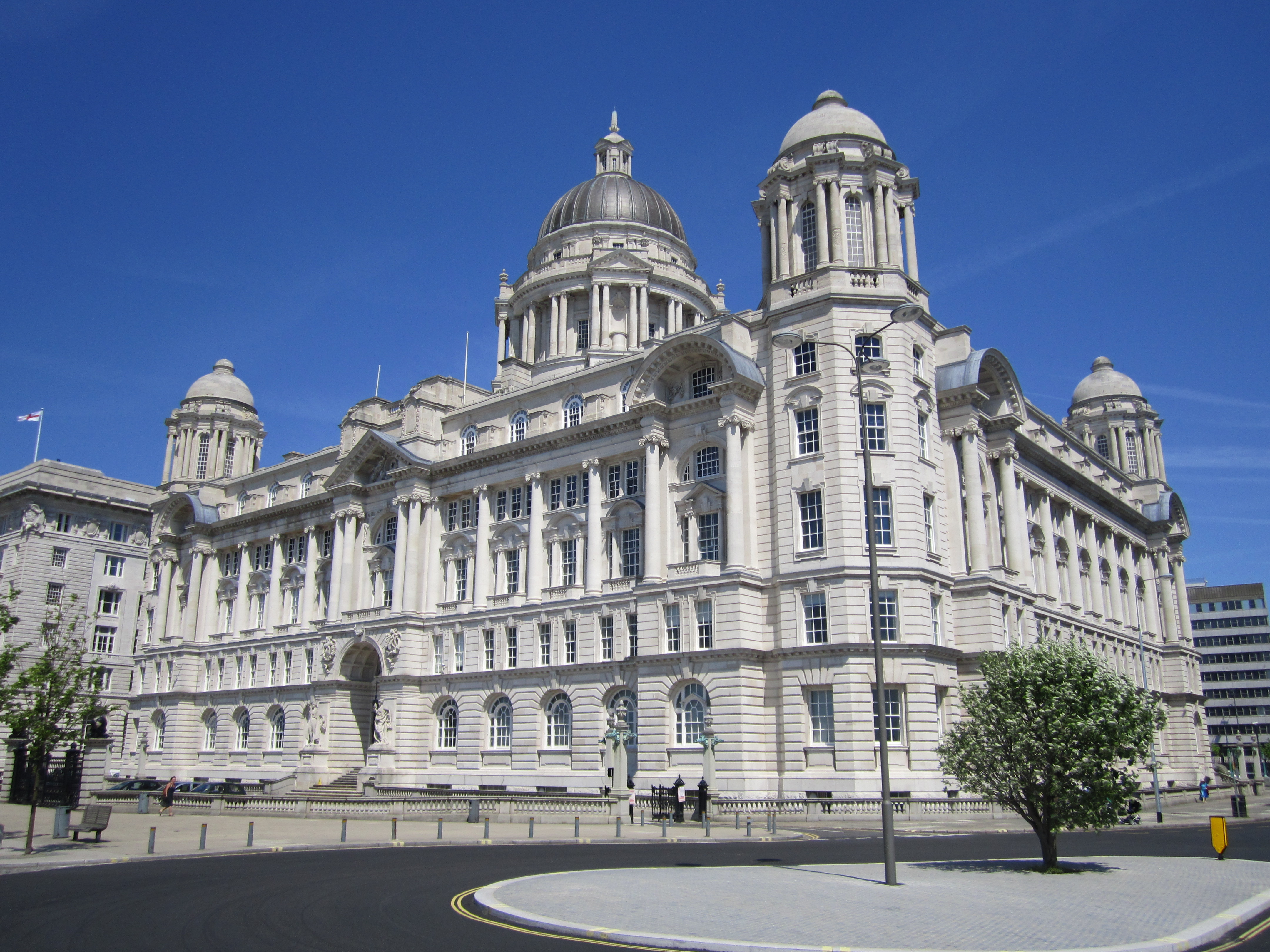 Port of Liverpool building, Pier Head, Liverpool, England.